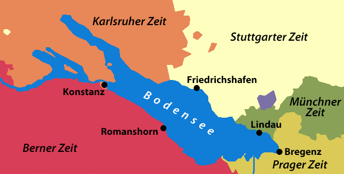 Map of the five time zones at Lake Constance at the end of 19th century